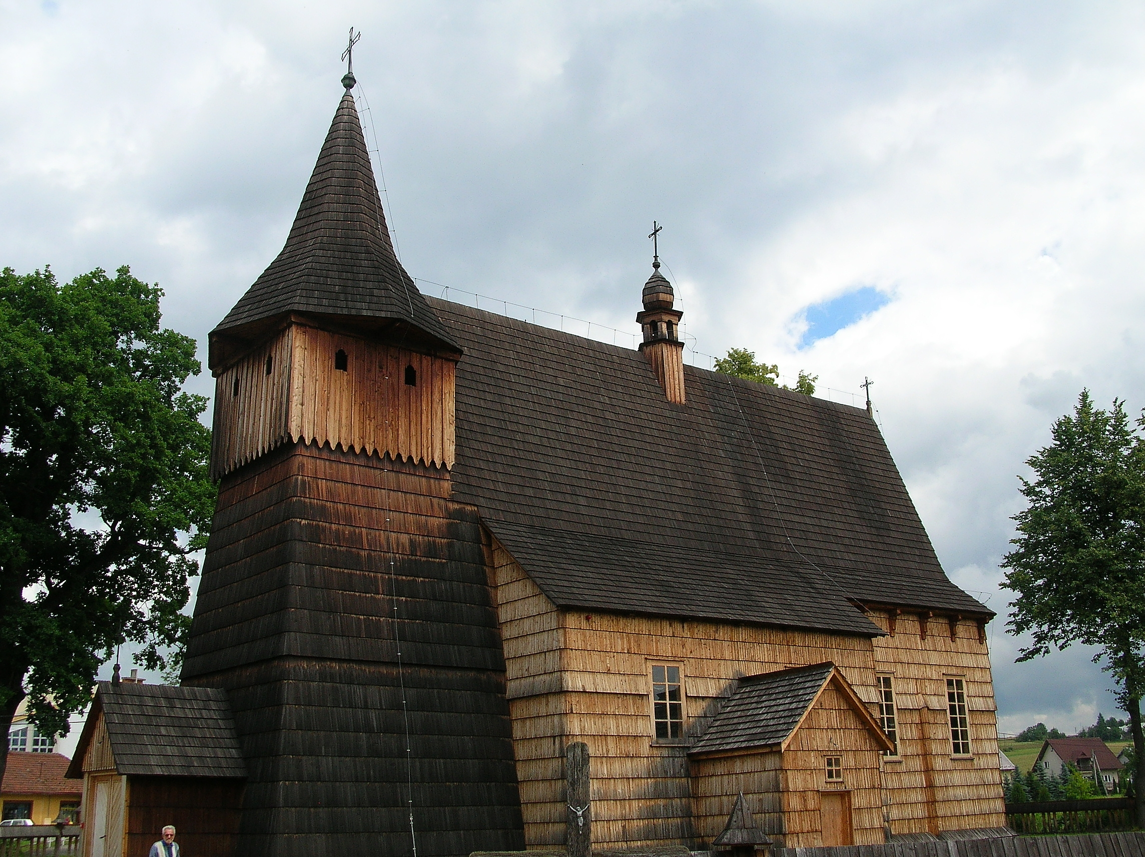 a